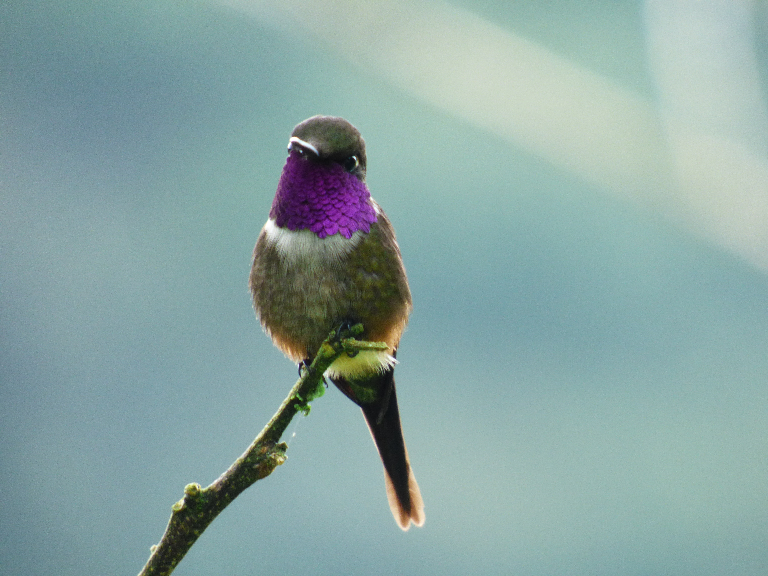 Caliphlox mitchelli (Zumbador pechiblanco) - Macho